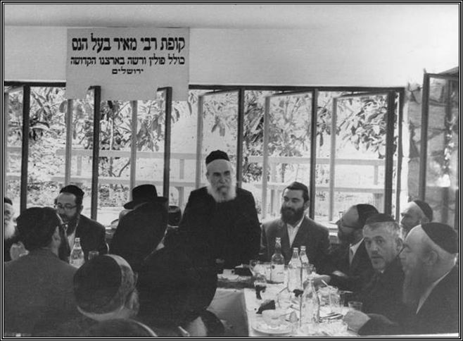 Reb Moshe Feinstein speaking at a meeting in Jerusalem during the 1964 Knessih Gedolah , on behalf of Kupath Rabbi Meir Baal Hanes - Kollel Polin Left to right: Rabbi Yitzchak Flakser; (Rosh Yeshivas Sfas Emes) the Ozherover Rebbe, Rabbi Moshe Yechiel Epstein; Reb Moshe Feinstein; Reb Mordechai Deutsch; (Kollel Polin's President) Reb Yeshayah Leib Levy; Rabbi Yaakov Shlomo Pardes; Rabbi Fabian Schonfeld; Rabbi Yitzchak Yedidya Frankel(Chief rabbi of Tel aviv - jaffa).